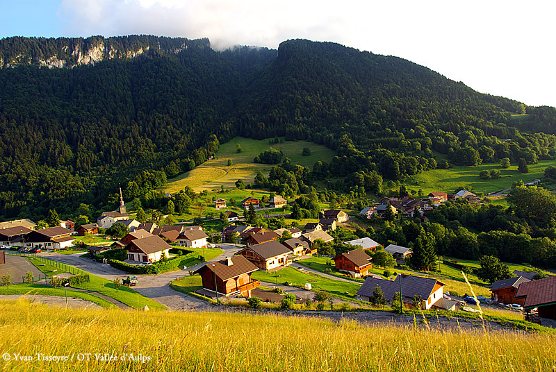 La Vernaz Village, in the heart of the Vallée d'Aulps, Haute-Savoie, France